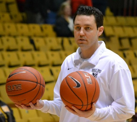 Bryce Drew at a recent (2011) Valparaiso University Basketball game in Valparaiso, Indiana.